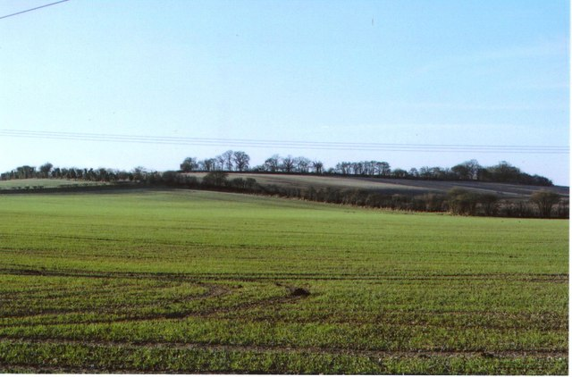 Perborough Castle – Iron-Age Hillfort